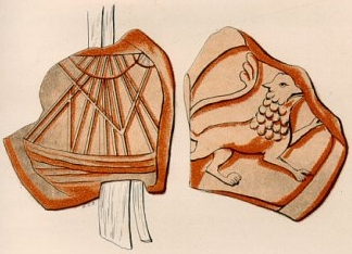 A nineteenth-century illustration of a seal of Haraldr Óláfsson, King of Mann and the Isles (died 1248).